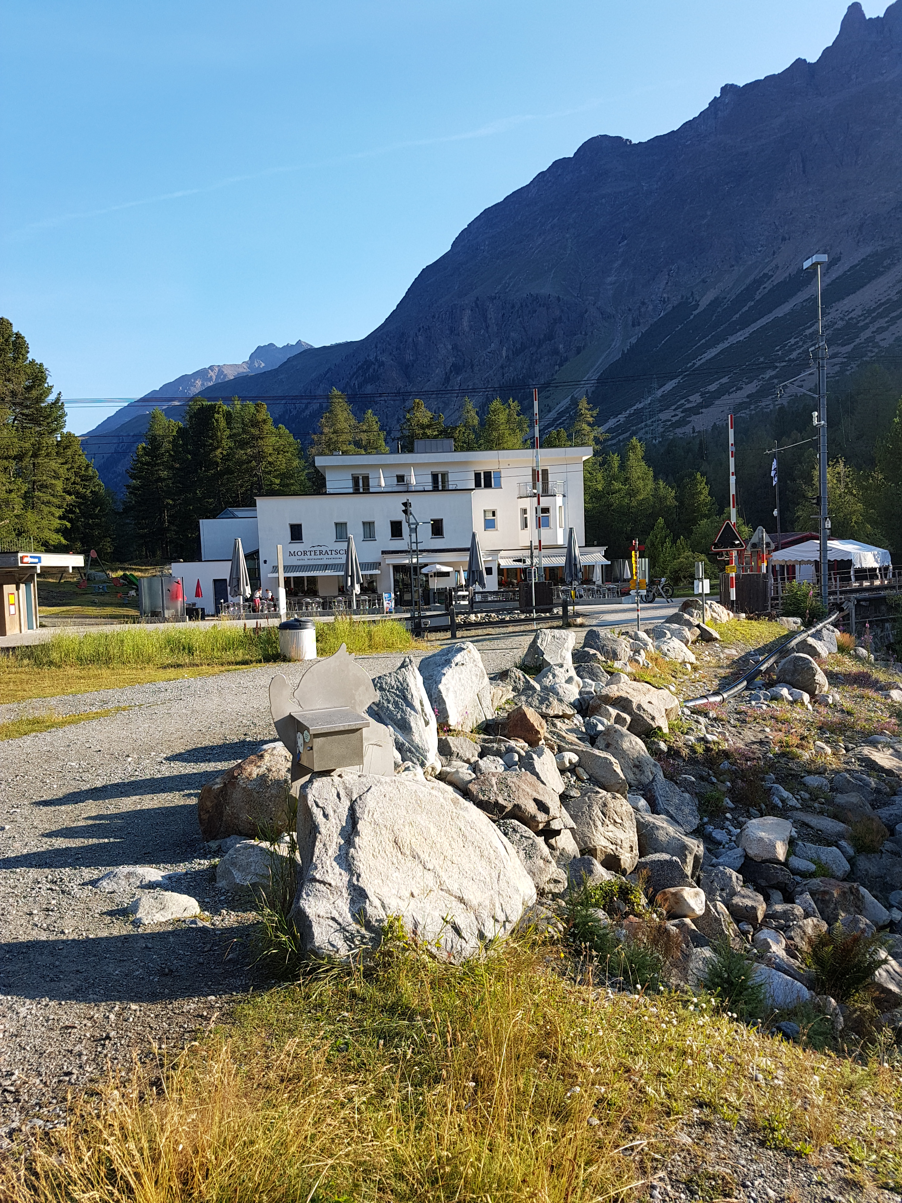 Morteratsch, Pontresina, Grisons, Switzerland. Hotel Mortertasch.